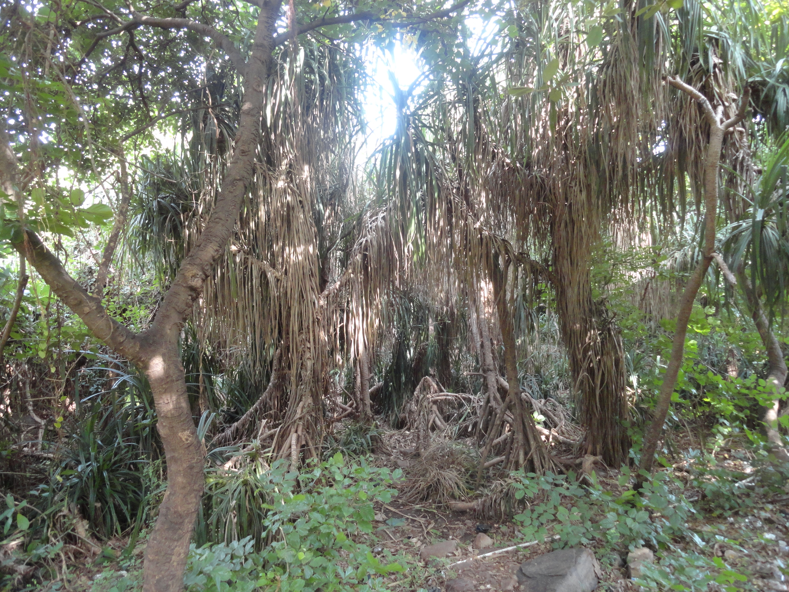 మొగిలి చెట్లు